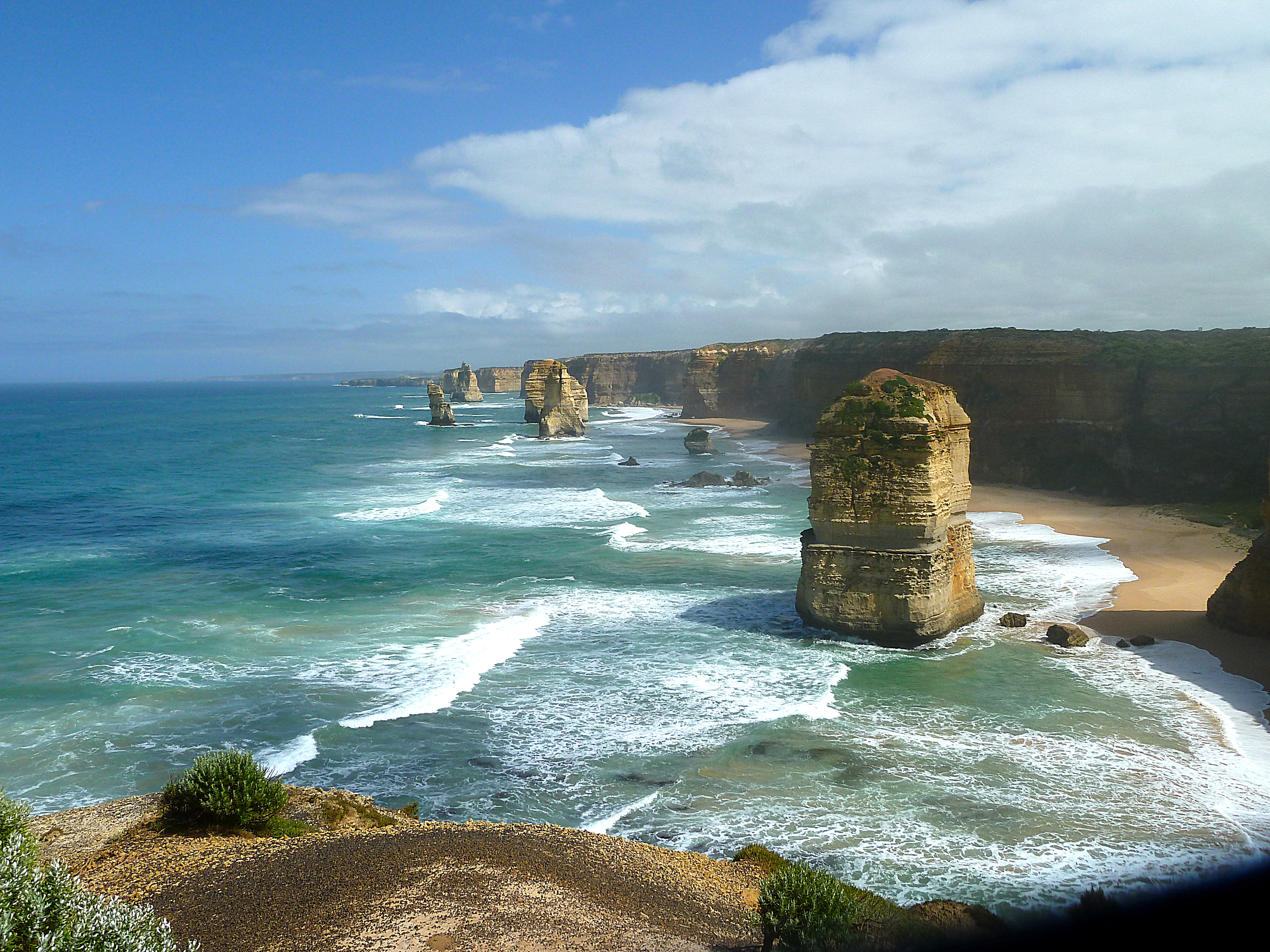 The Twelve Apostles are a collection of eight miocene limestone rock stacks. Despite the name there has only ever been nine stacks. Taken in Port Campbell National Park, between Princetown and Peterborough on the Great Ocean Road, Victoria, Australia.